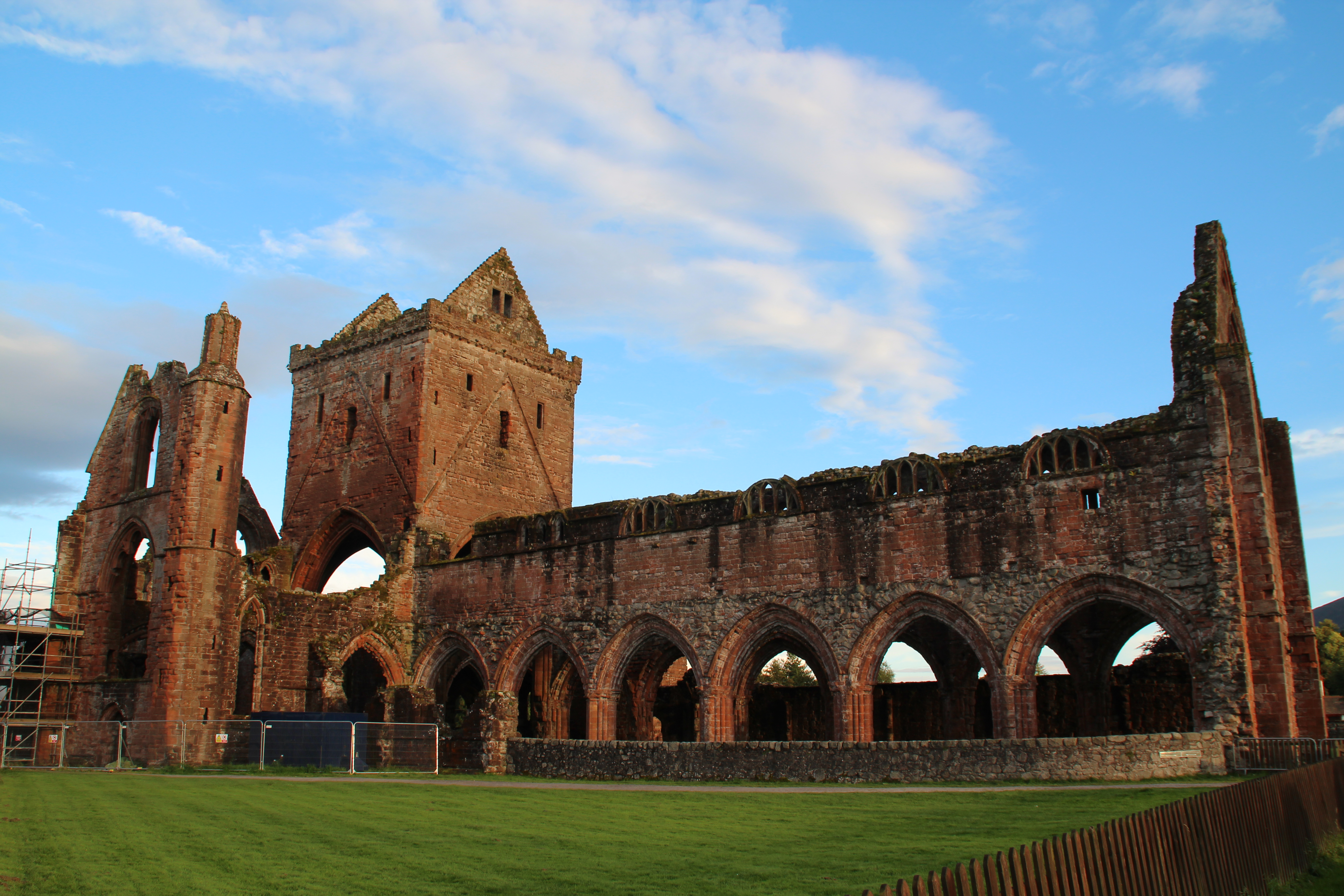 Sweetheart Abbey Wikidata has entry Q745893 with data related to this item.